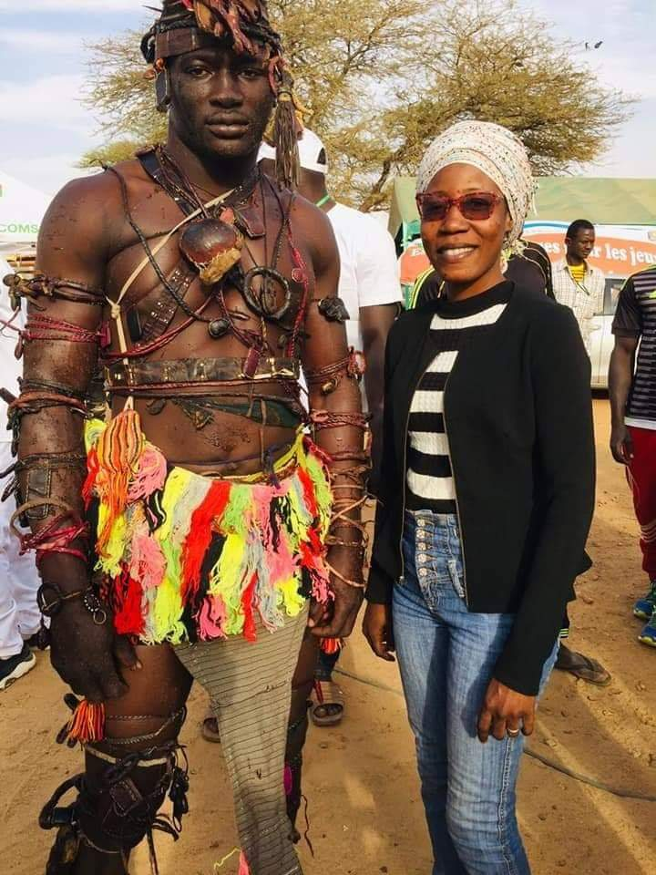 Un lutteur exceptionnel This is an image with the theme "Play" from: Niger